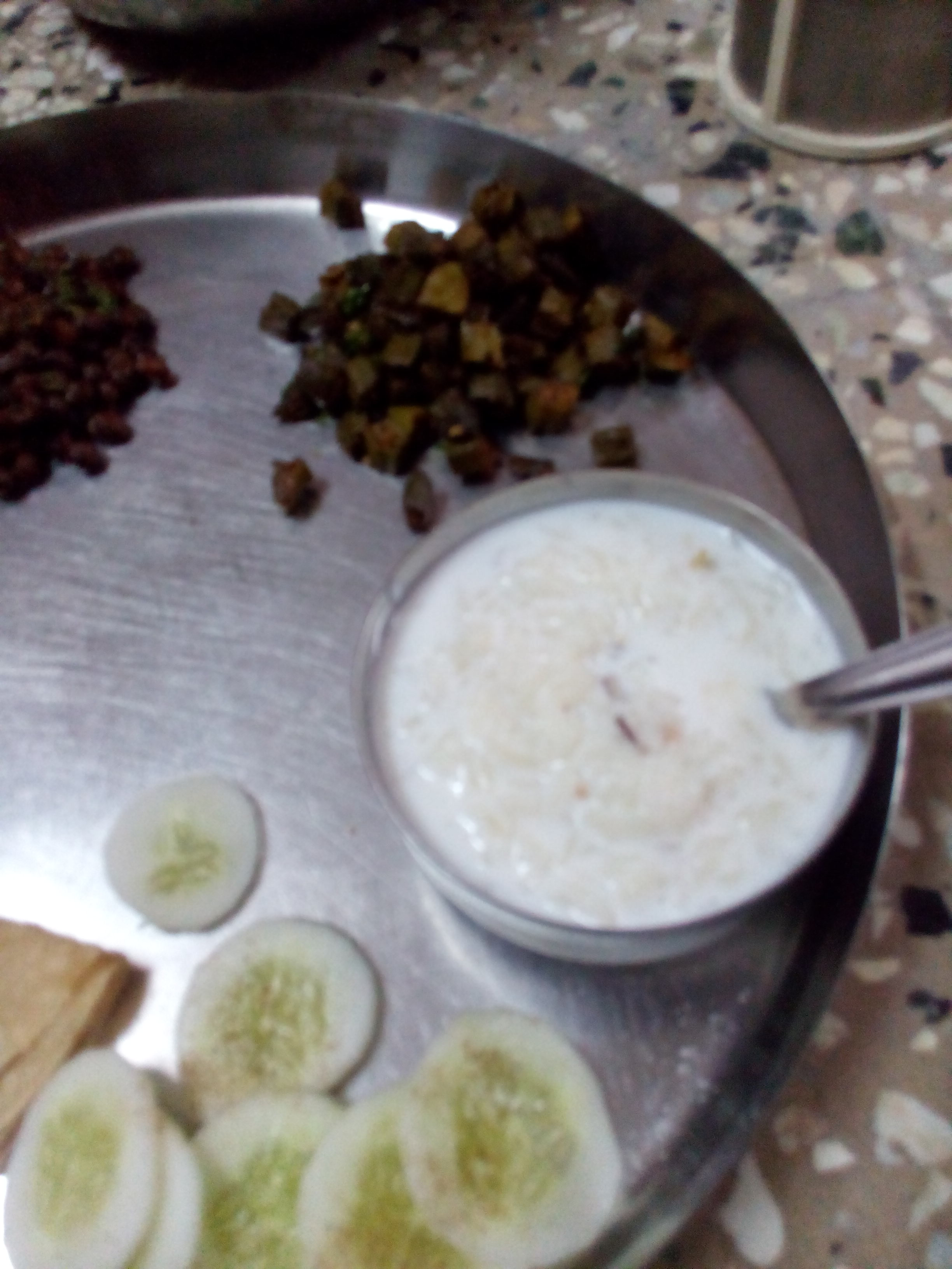 Indian Milk Based sweet dish... Cooked Rice in sweetened hot milk with added almond shavings and other dryfruits